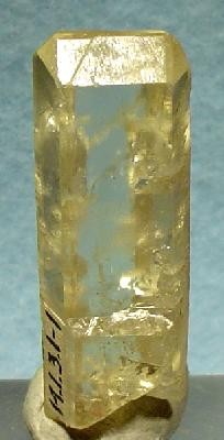 Aragonite Locality: Cicov Hill (Spitzberg), Horenec, Bílina (Bilin), Ústí Region, Bohemia (Böhmen; Boehmen), Czech Republic (Locality at ) Size: 4.0 x 1.3 x 1.1 cm. A CLASSIC, textbook, super-sharp, orthorhombic aragonite crystal from a historic Czech locality - Spitzberg, Bilin, Usti Region, Bohemia. This pristine, water-clear beauty is a pleasing light amber and has a super, chisel termination. Spitzberg is world-famous for aragonite crystals and this is a good one. OLD, large and choice material from the Carl Davis Collection.